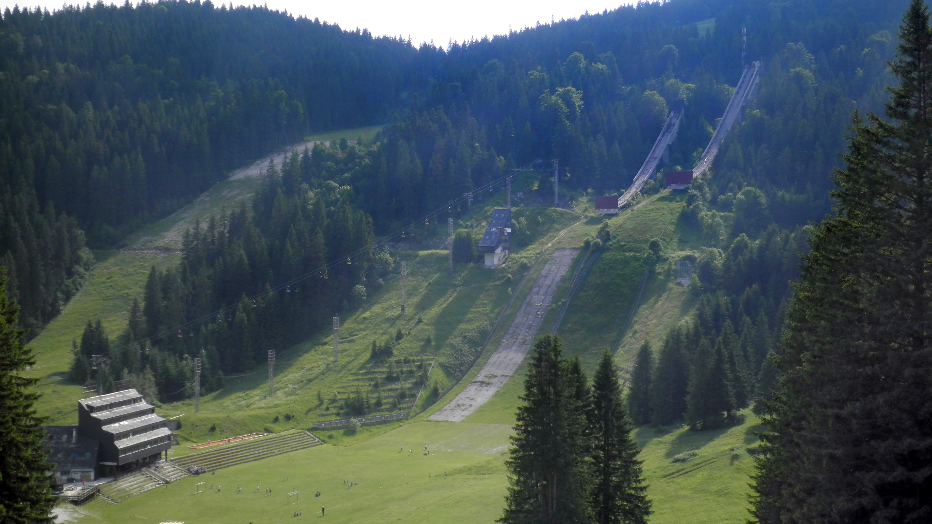 Ski jumping hill on Igman